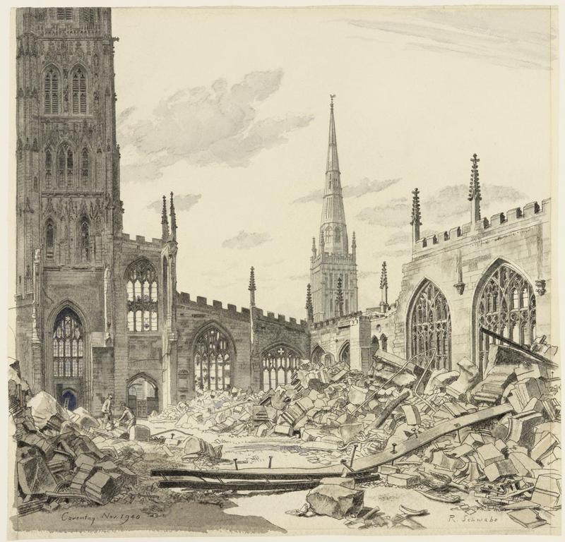 Inside the ruined nave of Coventry Cathedral, looking northwest. The foreground is littered with bricks, girders and rubble. On the left is the west tower. Centre right in the distance are the tower and spire of Holy Trinity parish church.